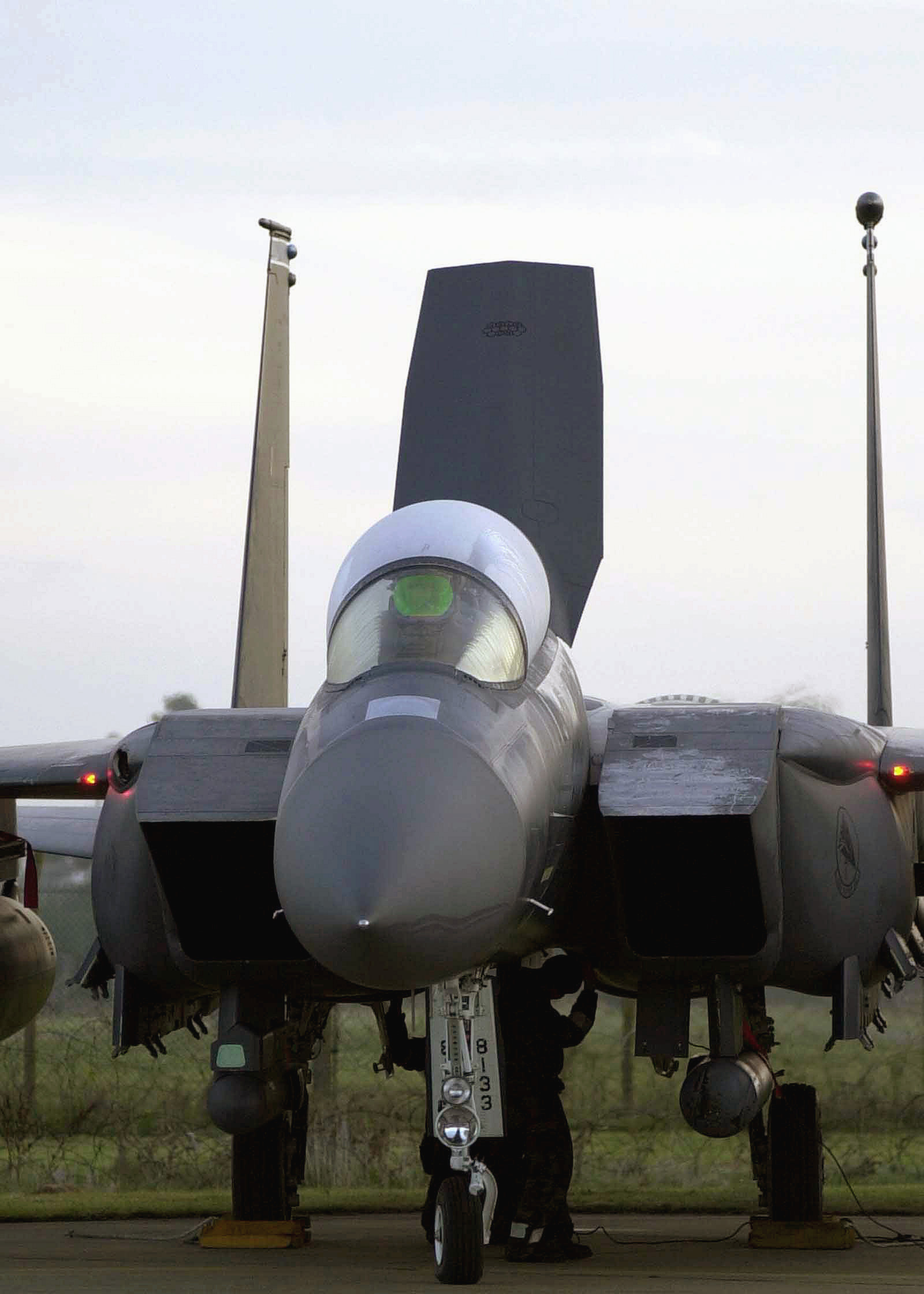 US Air Force (USAF) F-15E Strike Eagle assigned to the 492nd Fighter Squadron (FS) assigned to the 48th Fighter Wing (FW), Royal Air Force (RAF) Lakenheath, England, leaves on a mission.